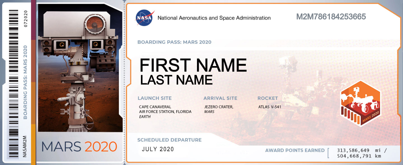 Boarding pass for NASA's Mars 2020 mission.